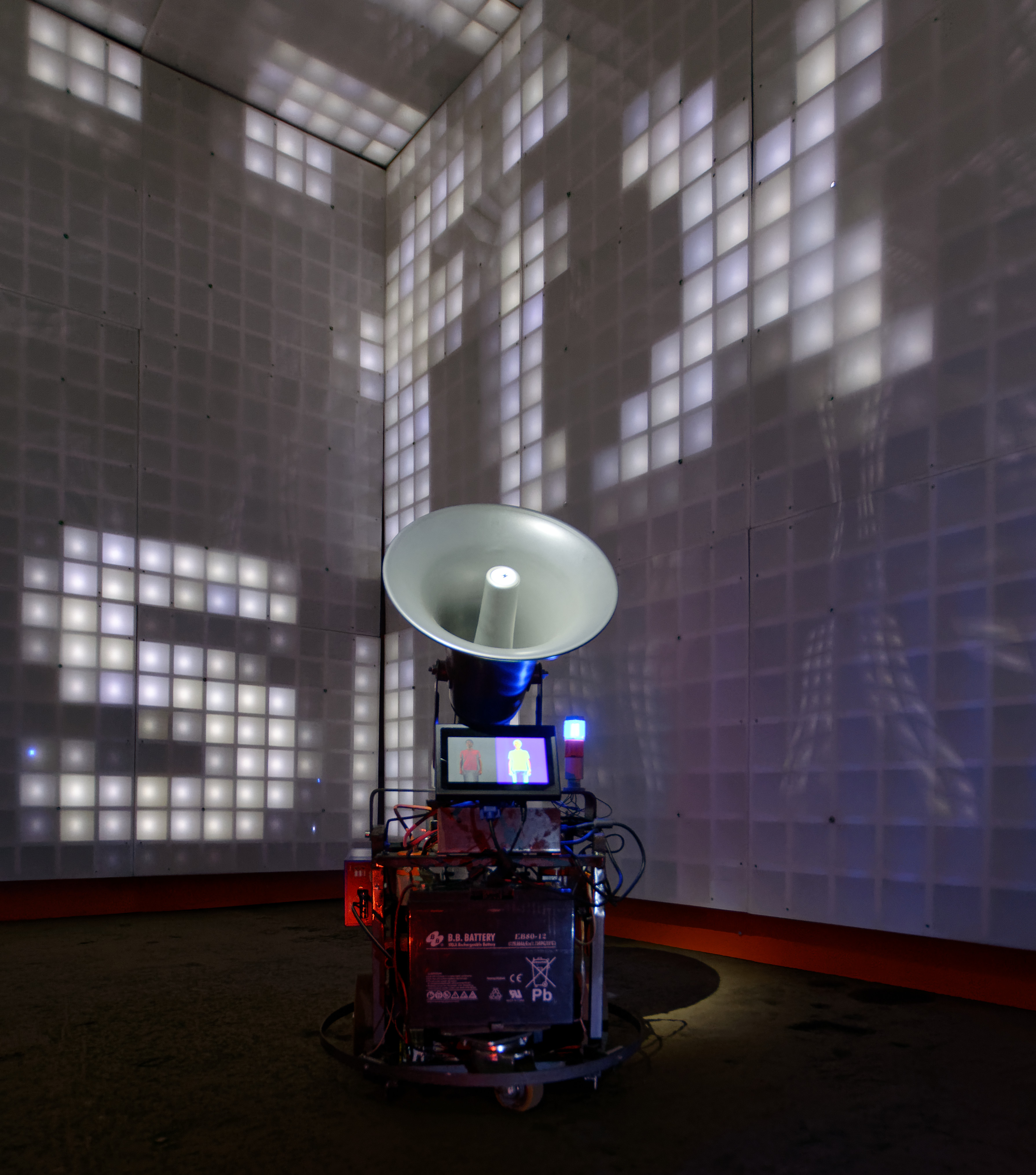 EPKOT 2018: Experimental Prototype Killers of Tomorrow, Co-production with Kunsthalle Mannheim.